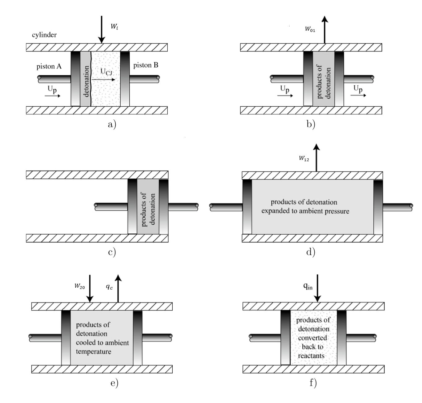 This image shows the different steps of the FJ Cycle in a schemtaic manner